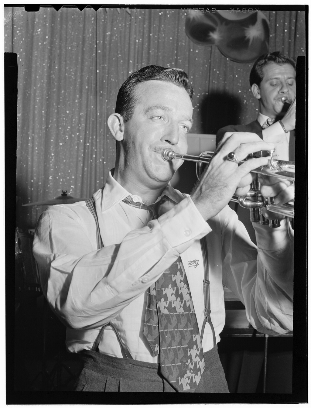 Portrait of Harry James, Coca Cola radio show rehearsal, New York, N.Y.